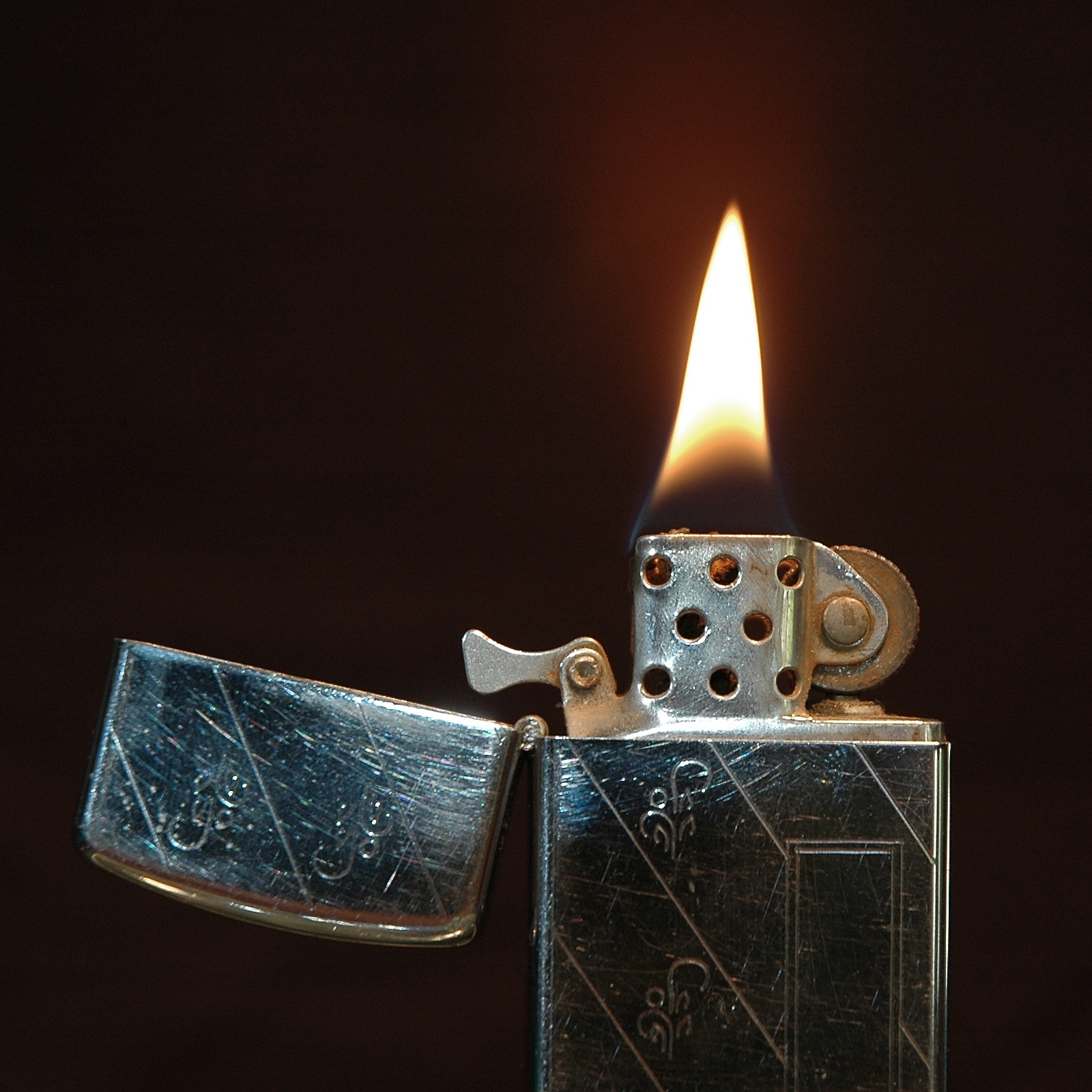 Close-up of a lit 1968 slim model Zippo lighter.